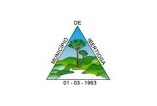 Flags of the city of Ibertioga, Minas Gerais, Brazil.